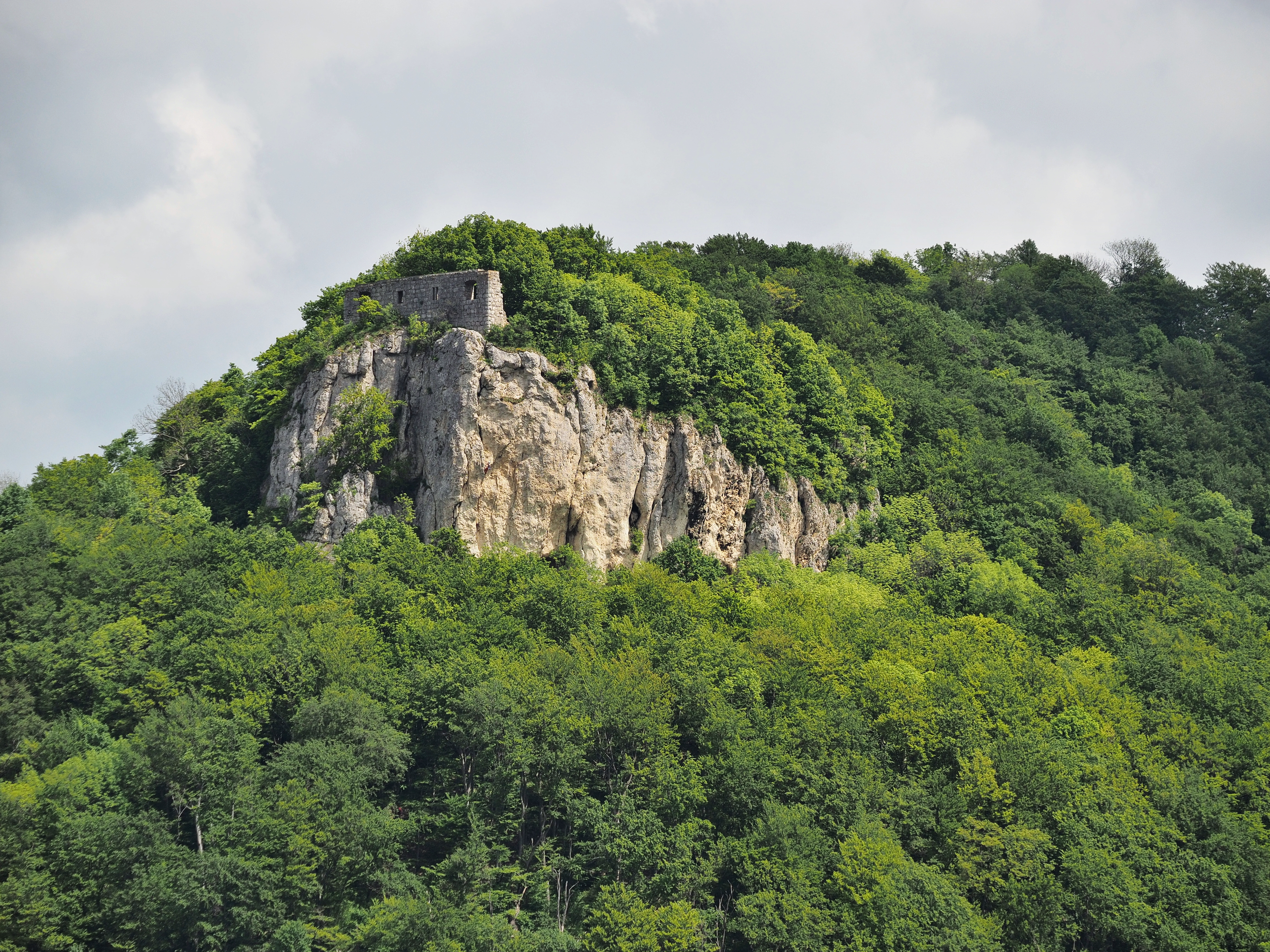 Rosenstein castle, Heubach, Germany